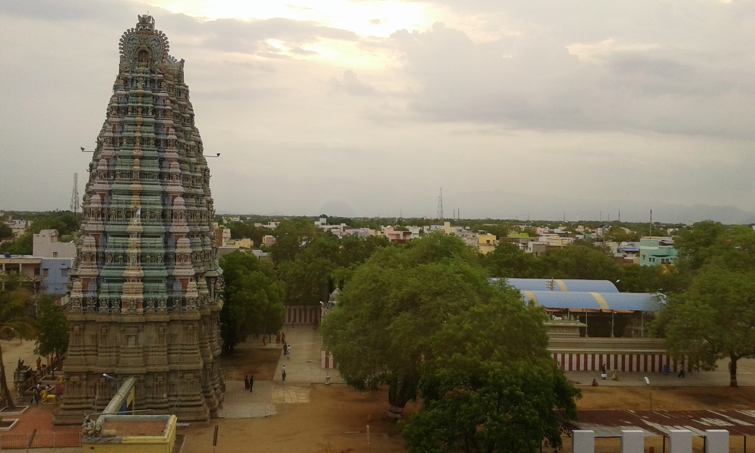 Bhadrakali Amman, Sivakasi